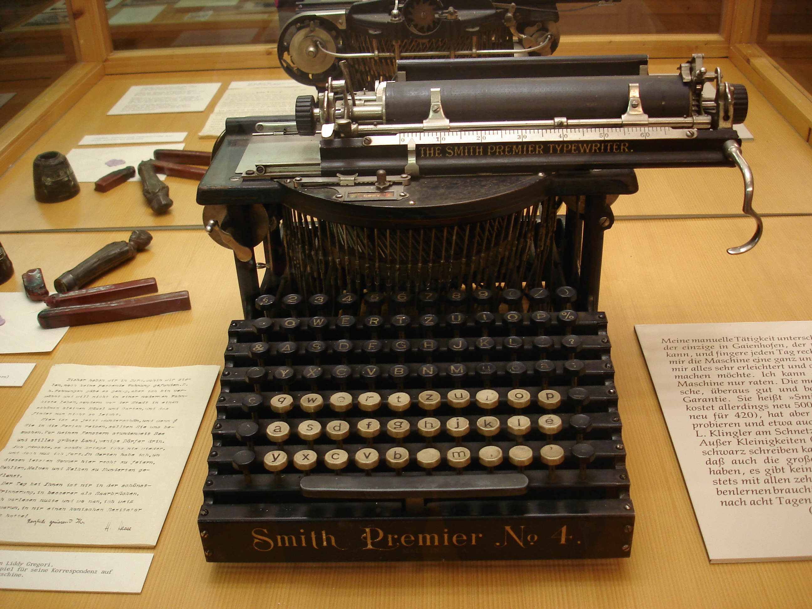 Smith Premier Typewriter No. 1